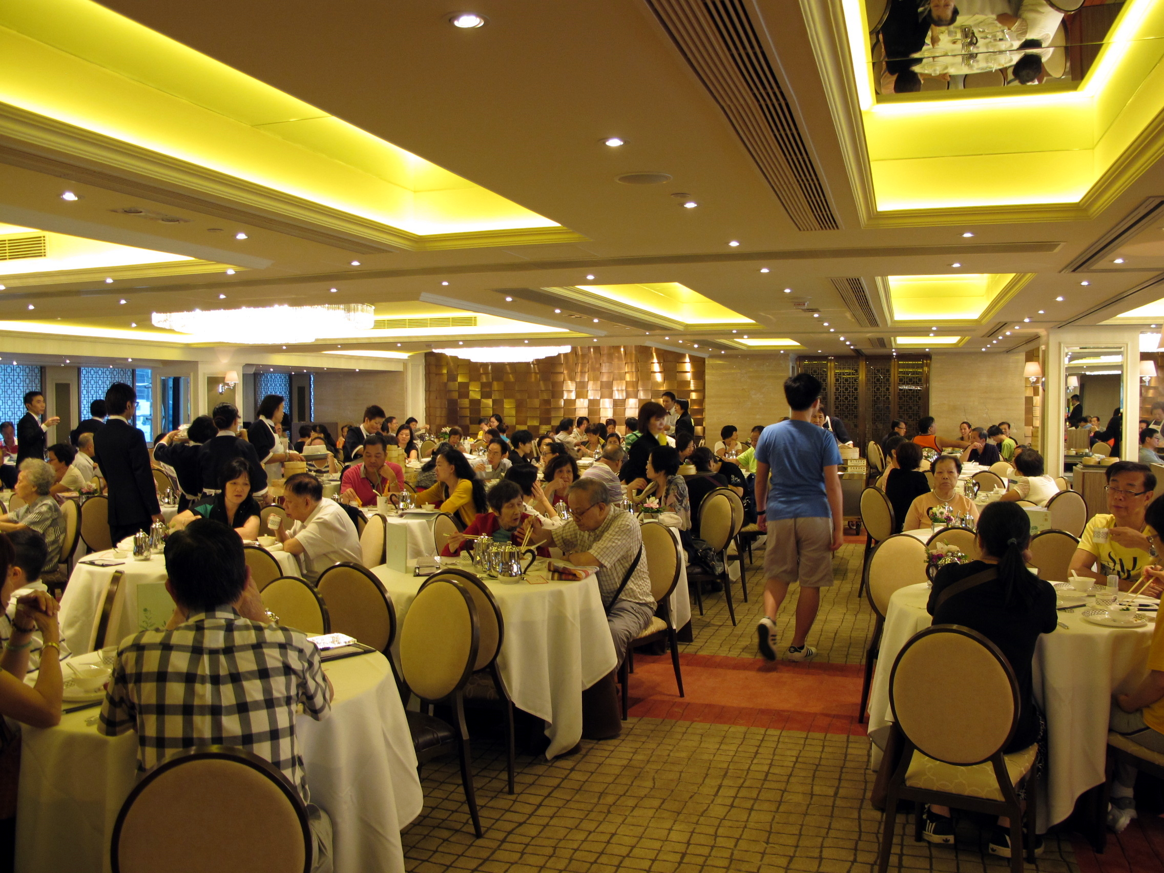 Jade Garden in New Town Plaza Interior